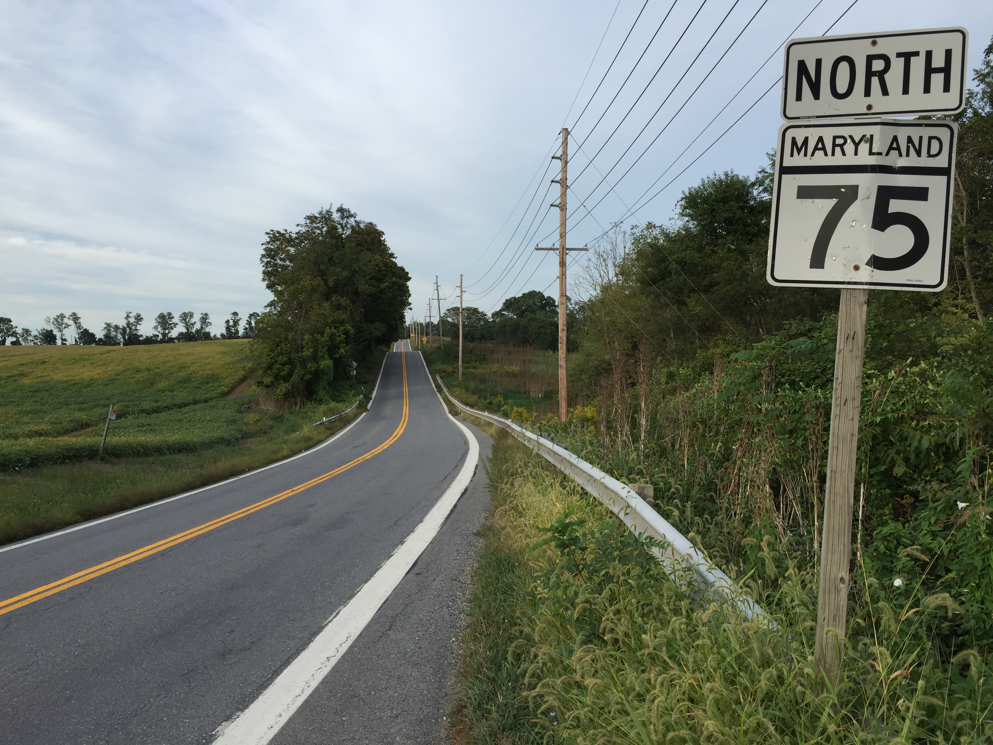 View north along Maryland State Route 75 (Green Valley Road) just north of Maryland State Route 355 (Frederick Road) in southeastern Frederick County, Maryland